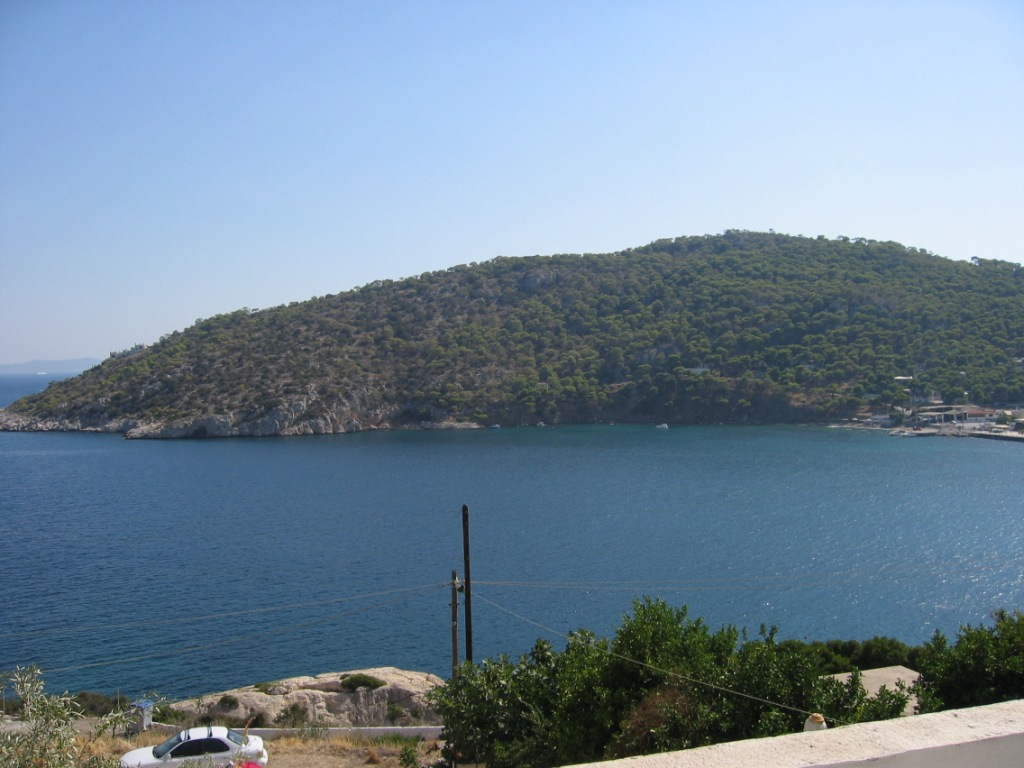 A view of Kaki Vigla's Gulf